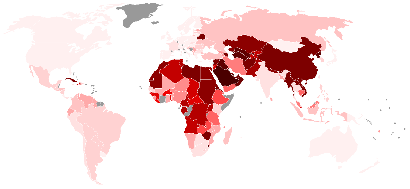 Map of polity data series country rankings. 10 = lightest shade, -10 = darkest shade.